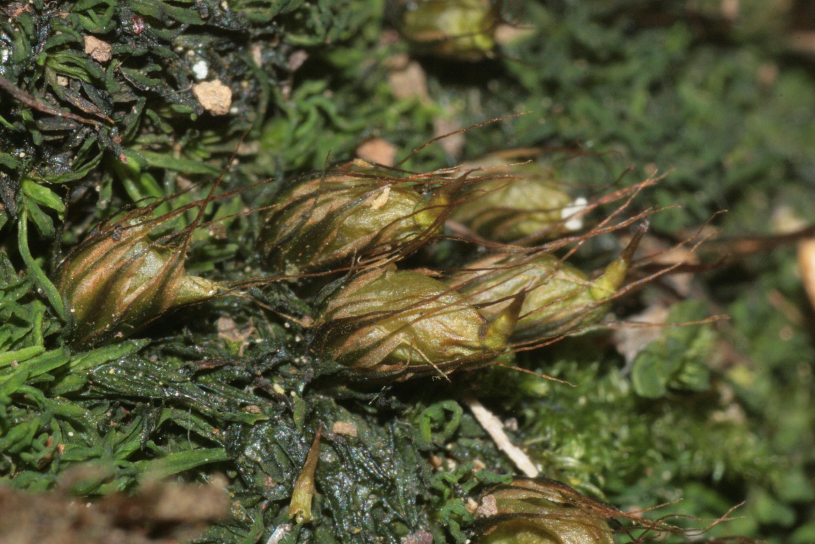 Diphyscium foliosum